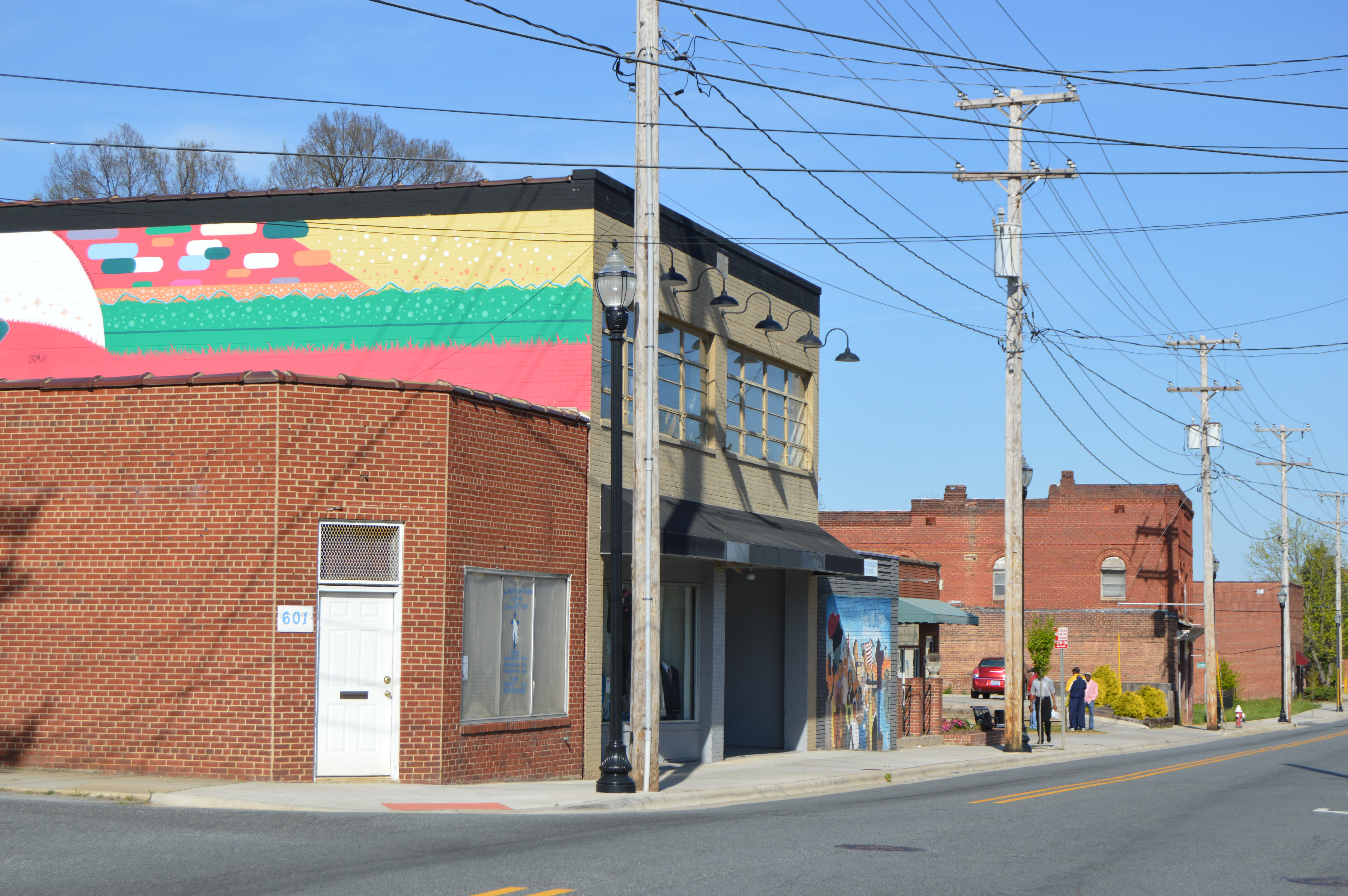 Northern side of Washington Street, east of Centennial Street, in High Point, North Carolina, United States. This block is part of the Washington Street Historic District, a historic district that is listed on the National Register of Historic Places.